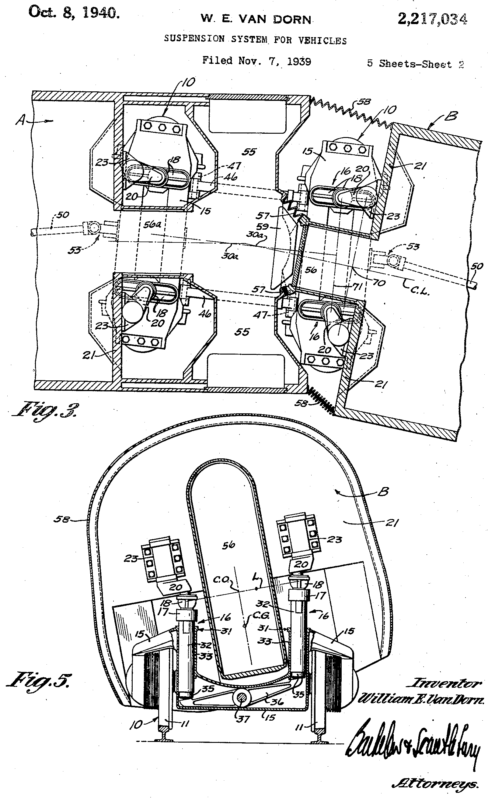 Illustration from U.S. Patent 2,217,034 for a suspension system for vehicles.